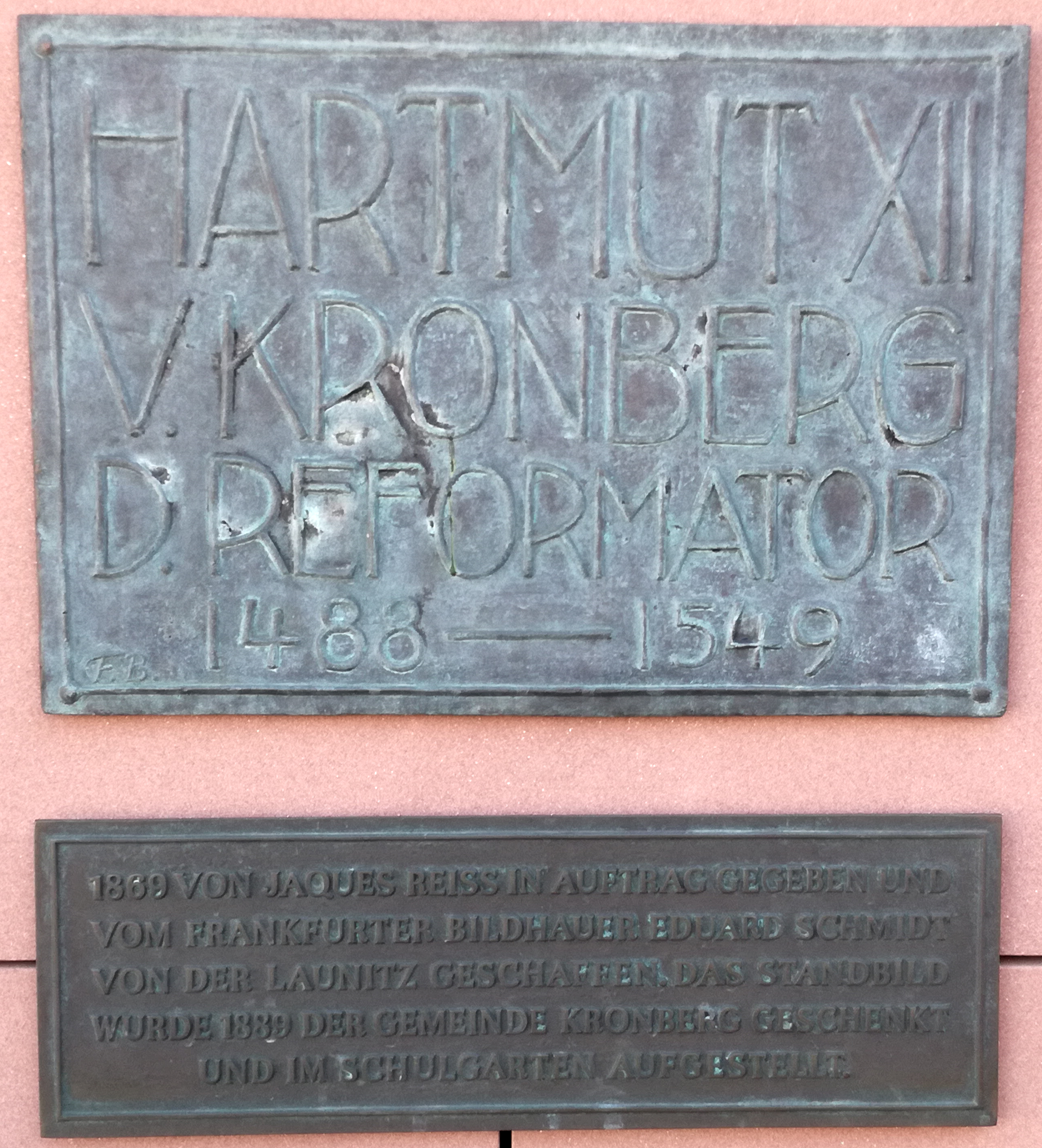 Hartmut XII von Cronberg - Plaque below the statue